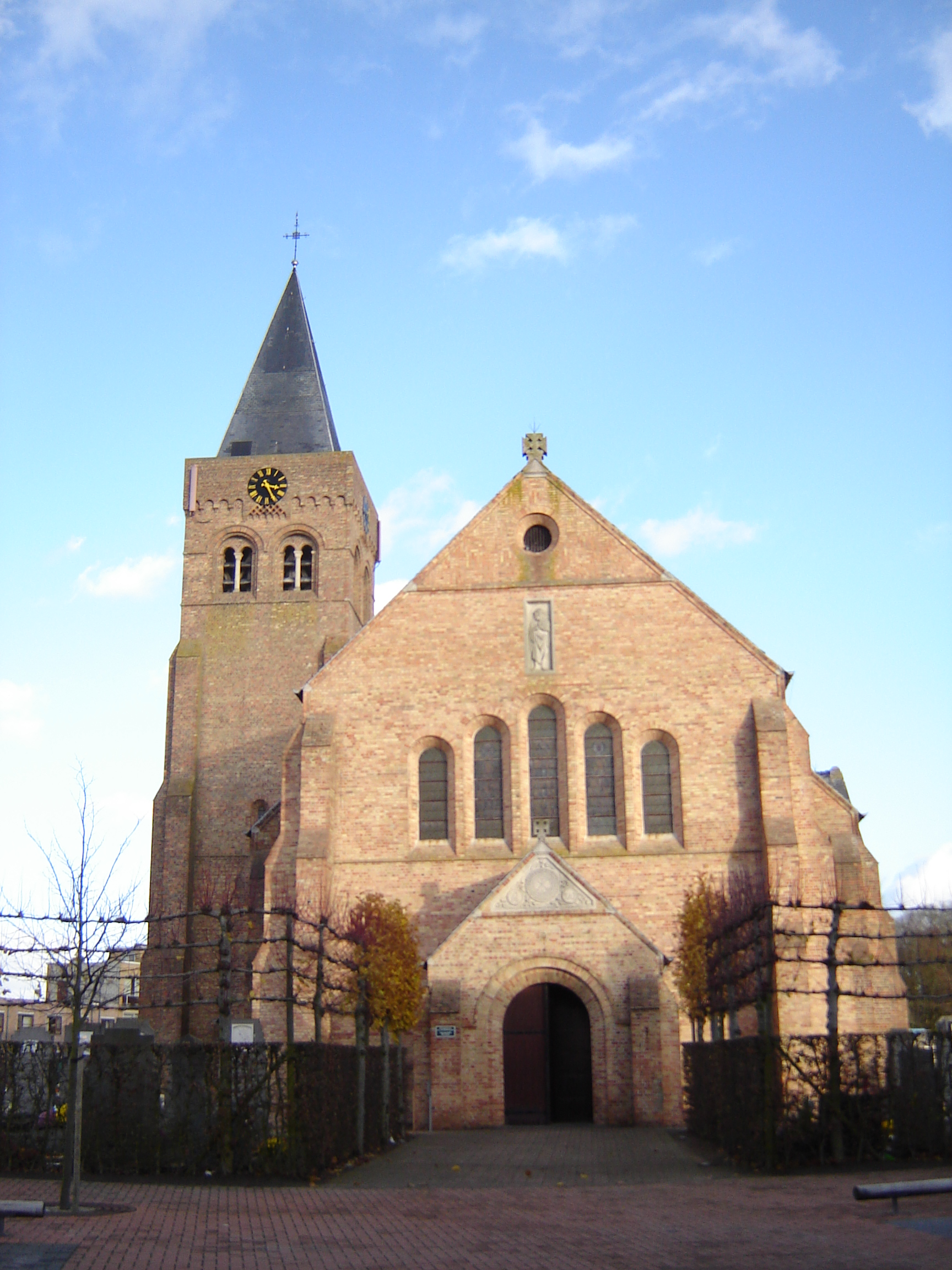 Church of Saint John the Baptist in Houthulst. Houthulst, West Flanders, Belgium